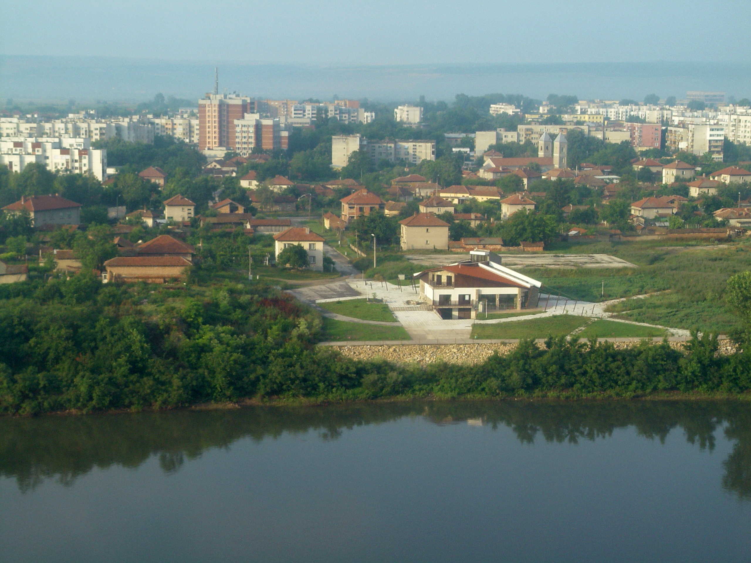 City Of Belene